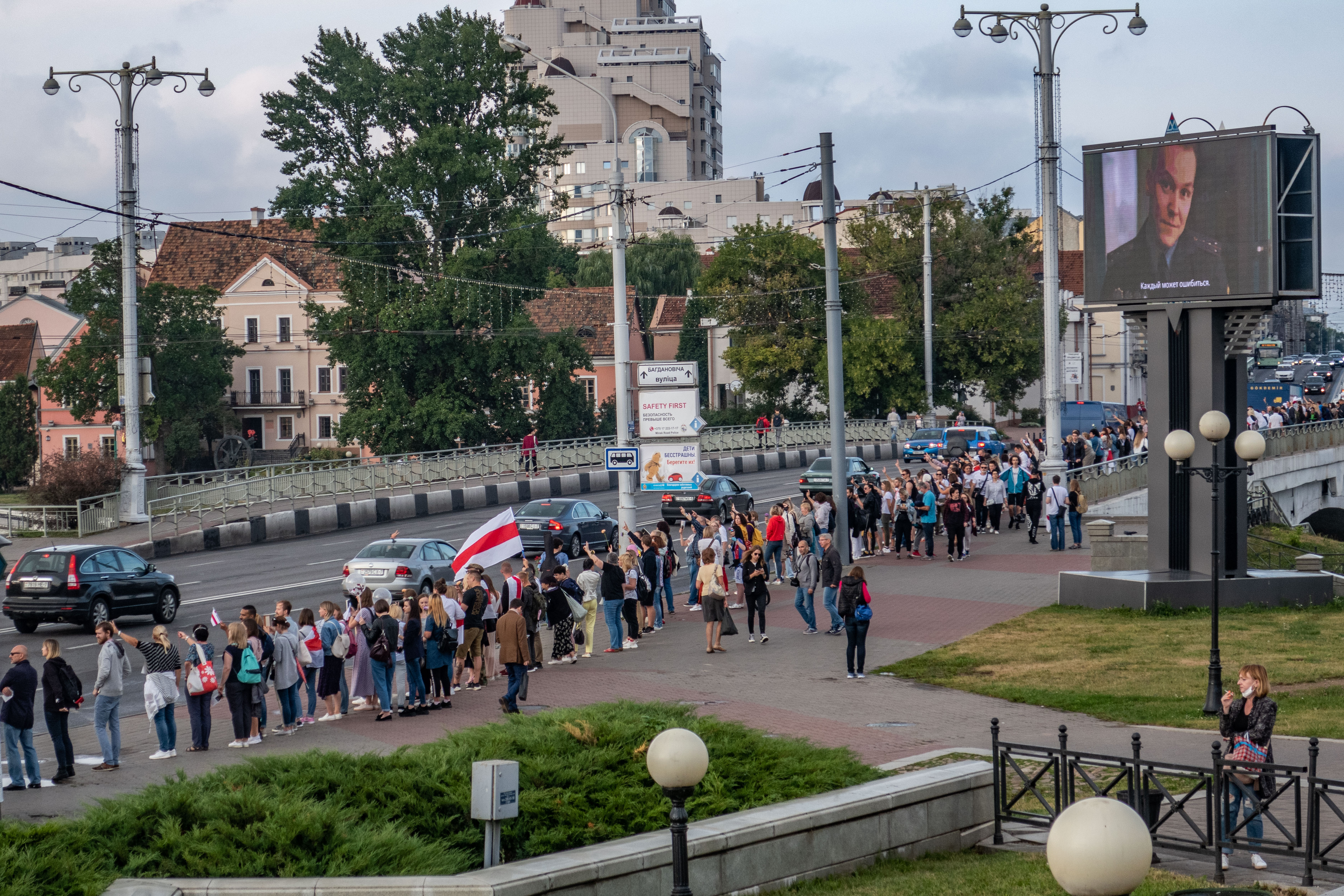 Line against violence ("Never again"), 21 August 2020. Minsk, Belarus